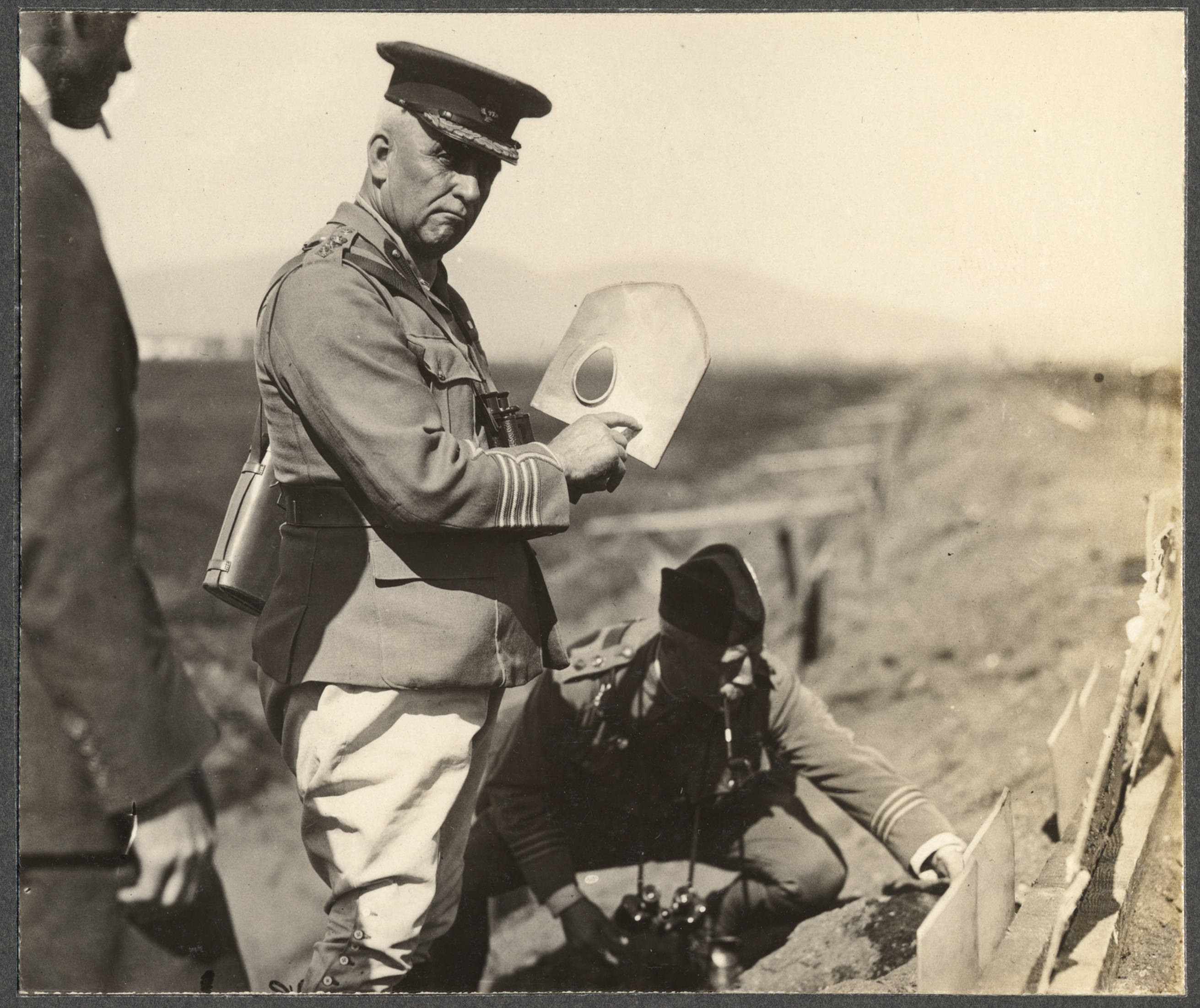 Item is a photograph taken by J. A. Millar from an album depicting scenes of the Canadian Expeditionary Force at Valcartier Camp, at Quebec, and at Gaspe Harbour immediately prior to sailing to Britain in 1914. Millar was a staff photographer of the Montreal Daily Star and produced the album in 1915.